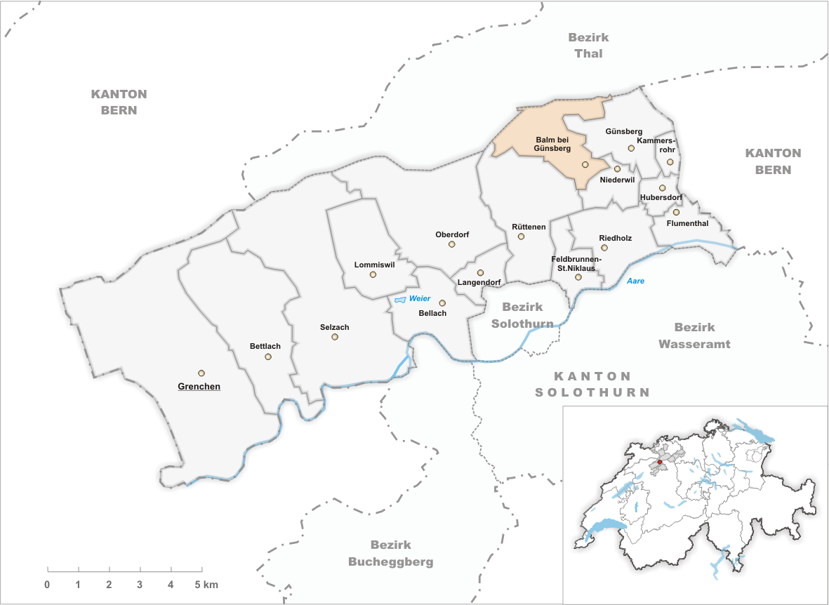 Municipality Balm bei Günsberg